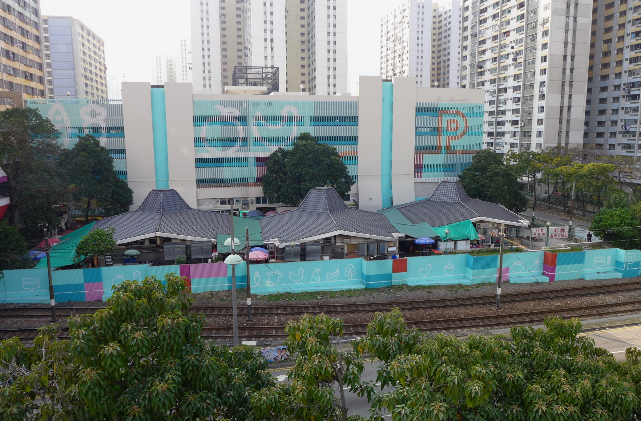 H.A.N.D.S Zone D Cooked Food Stalls